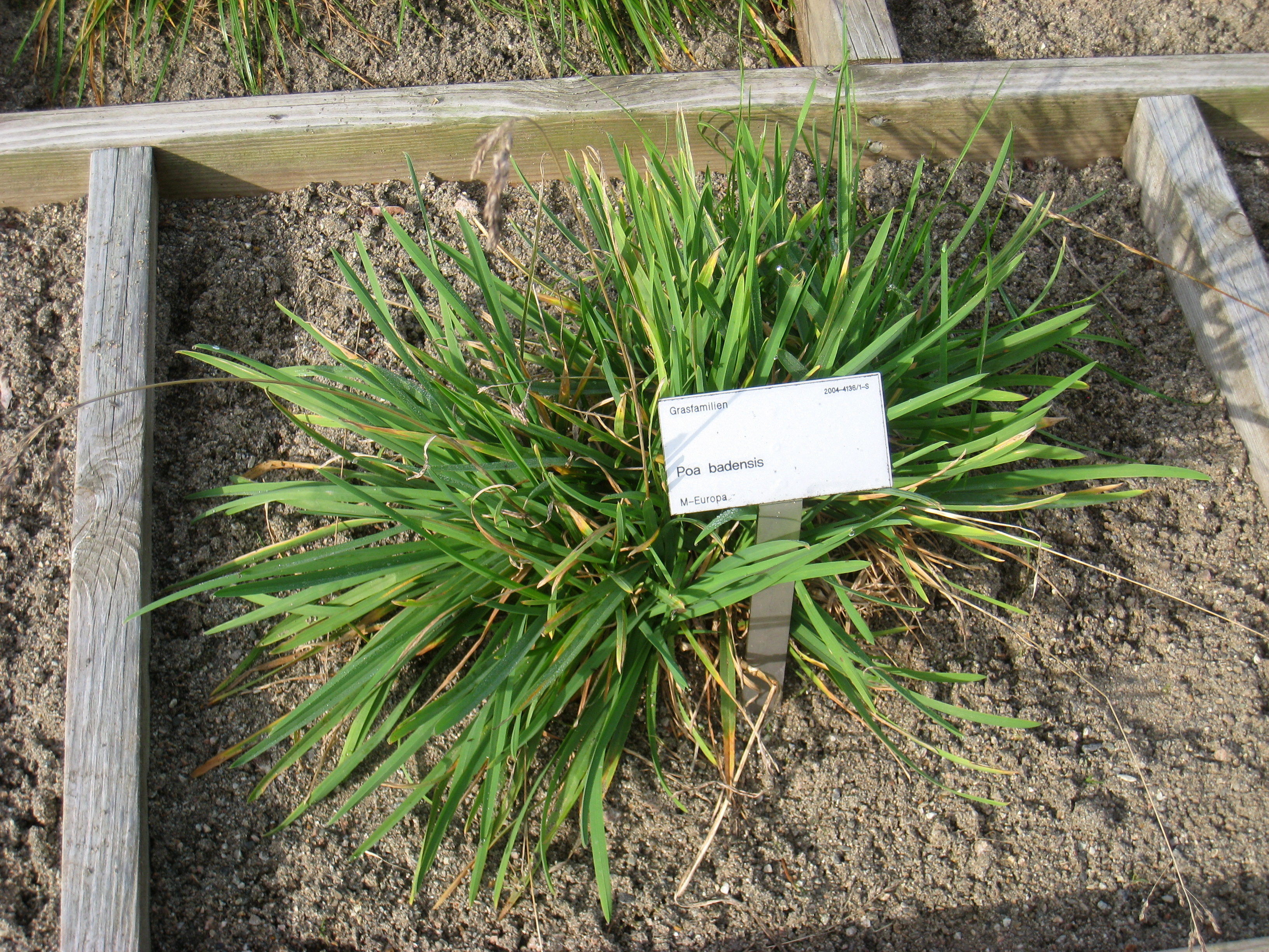 Poa badensis - Oslo botanical garden, Oslo, Norway.